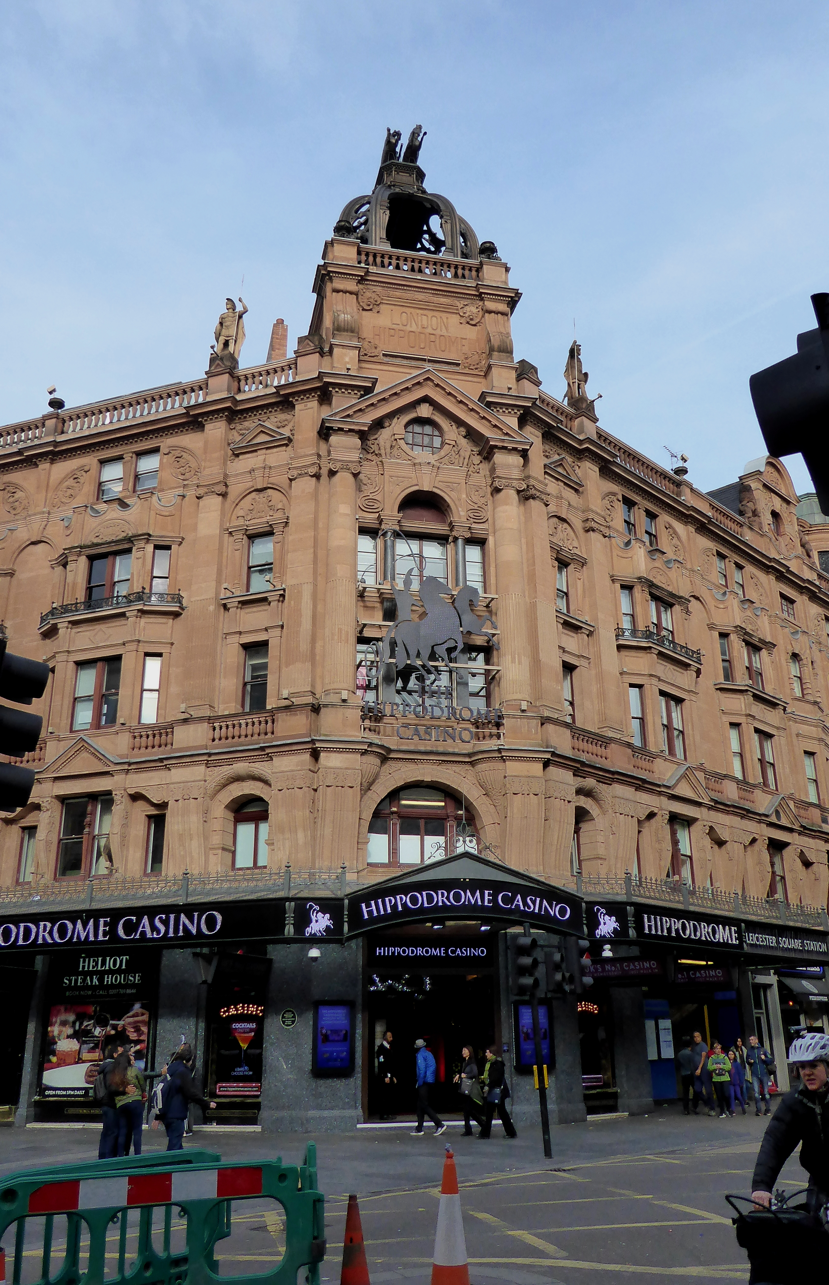 The Hippodrome, London, in the City of Westminster.